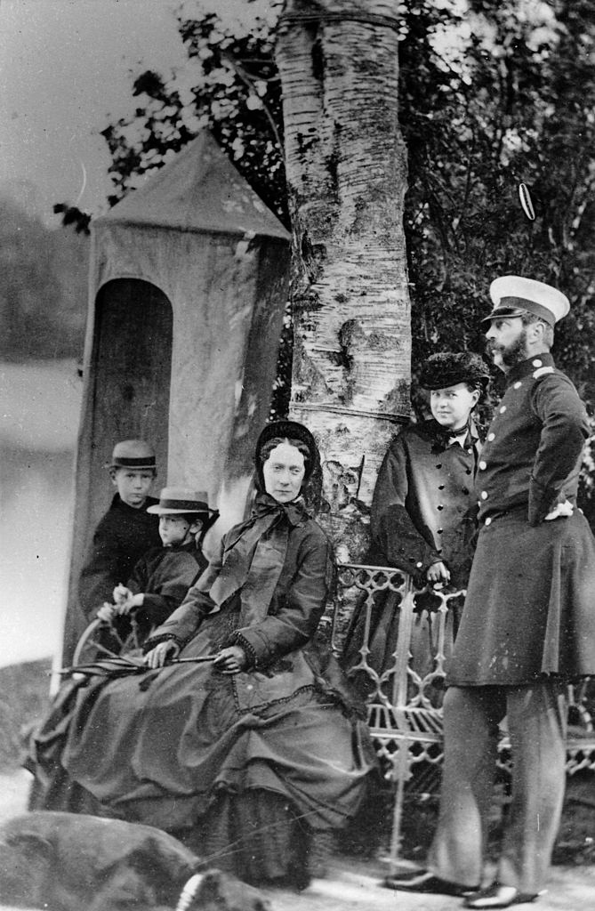 Tsar Alexander II of Russia with his wife Emress Maria Alexandrovna and their three youngest childrenː Sergei, Paul and Maira